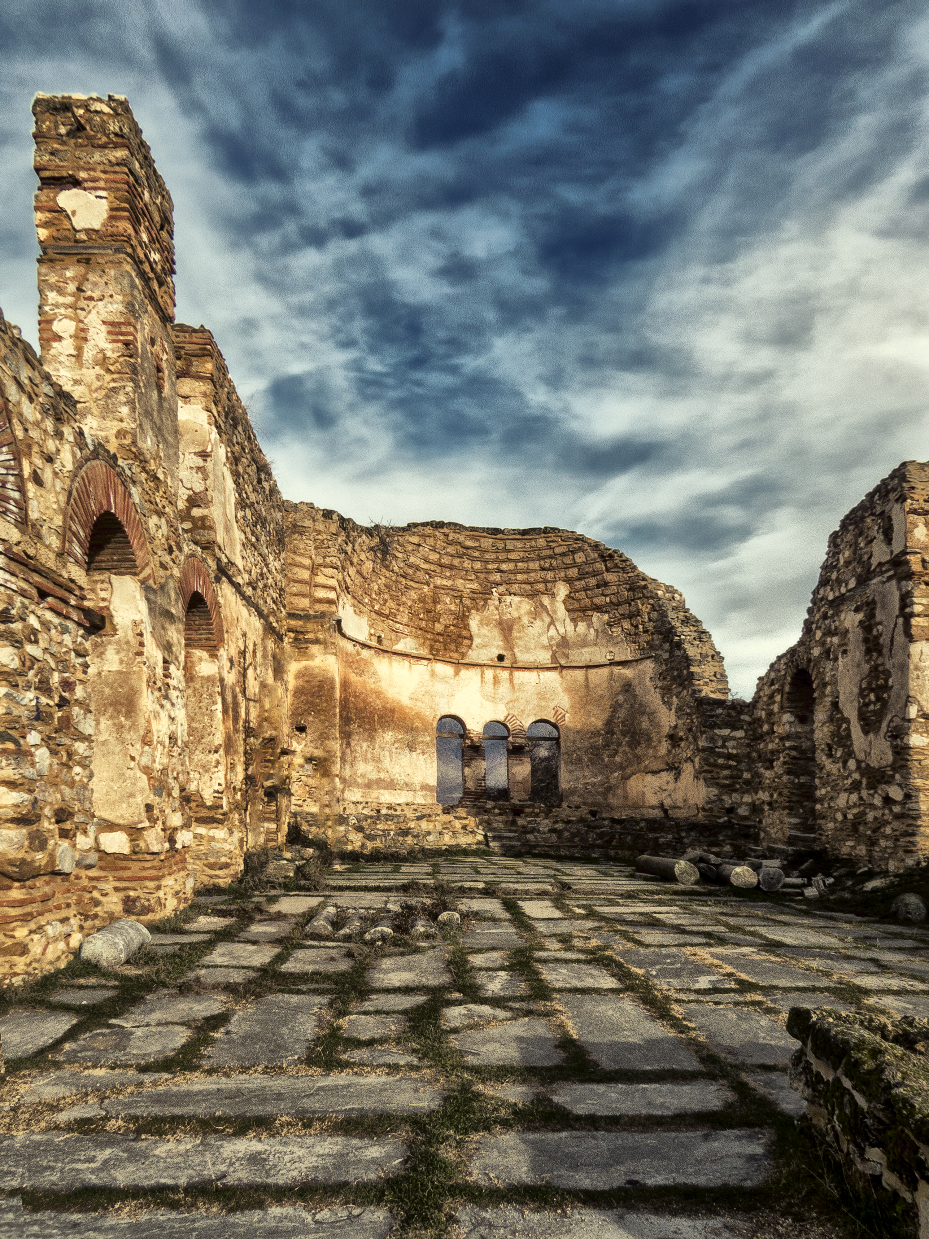 This is a photography of Natura 2000 protected area with ID GR1340001